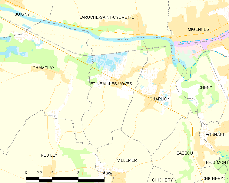 Map of French municipality Épineau-les-Voves